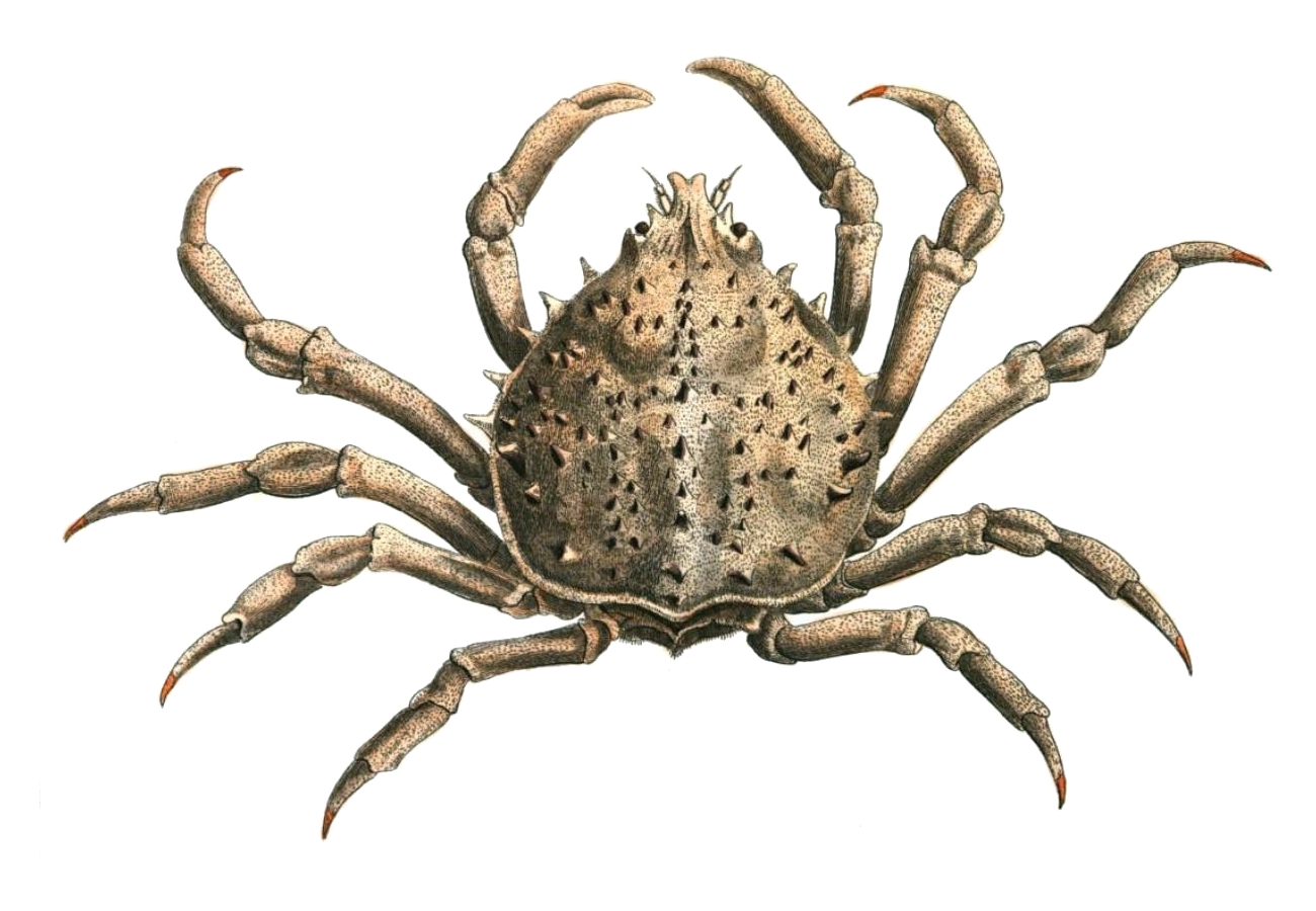 Plate 108: Libinia emarginata